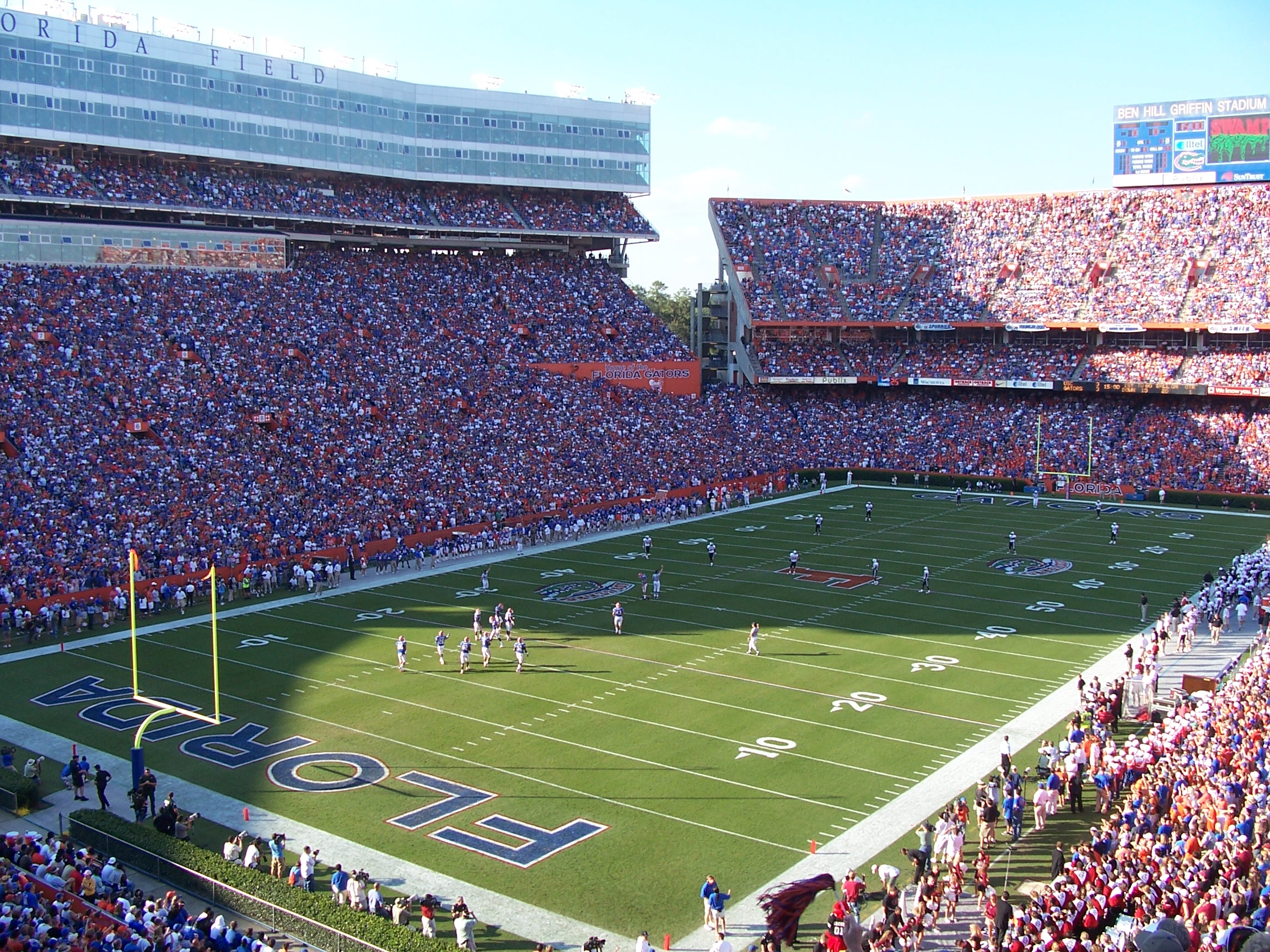 This picture was taken at the South Carolina-Florida game on November 11, 2006 by Randall Stewart.